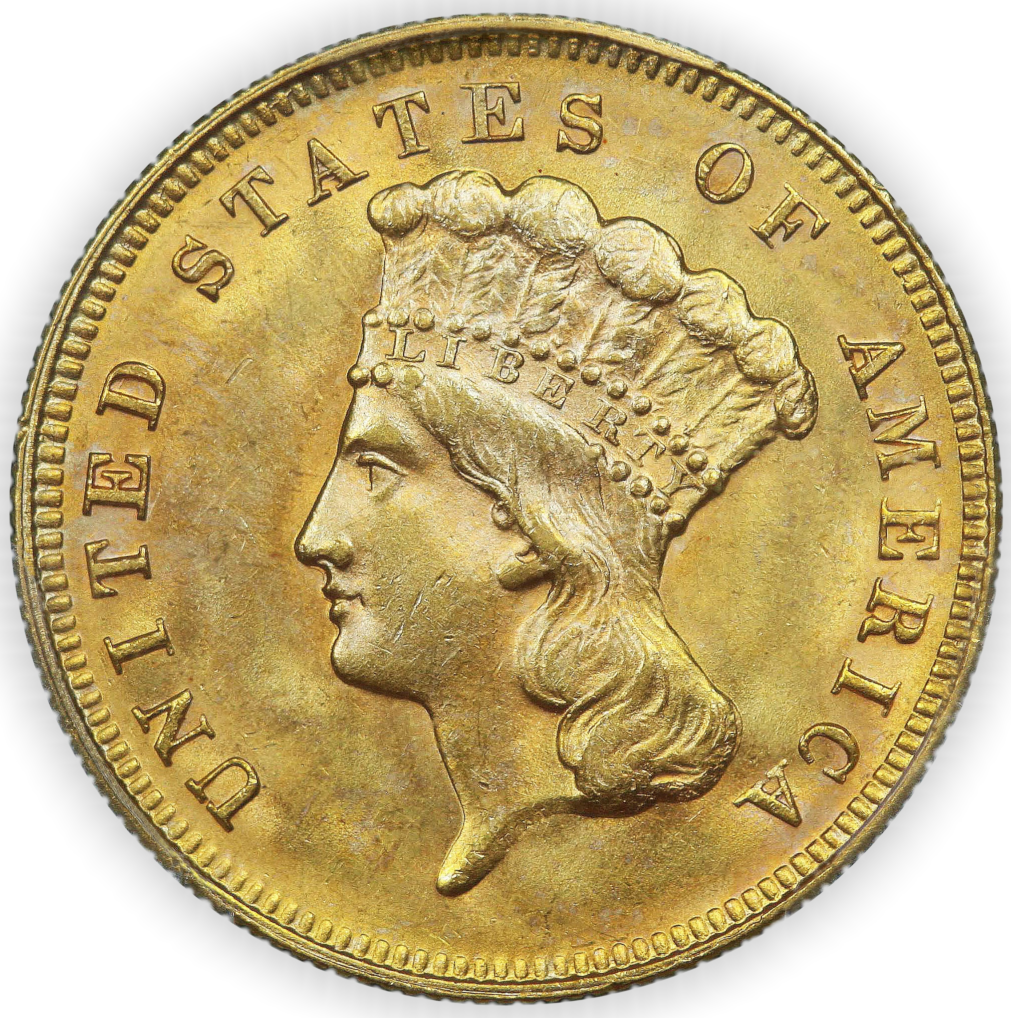 1878 three-dollar piece obverse